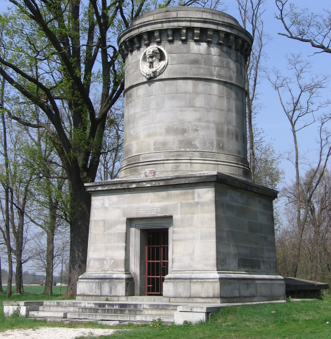 Gebhard Leberecht von Blücher mausoleum in Krobielowice, Poland